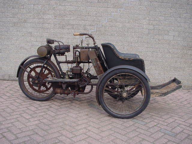 1904 Griffon 500cc tricycle